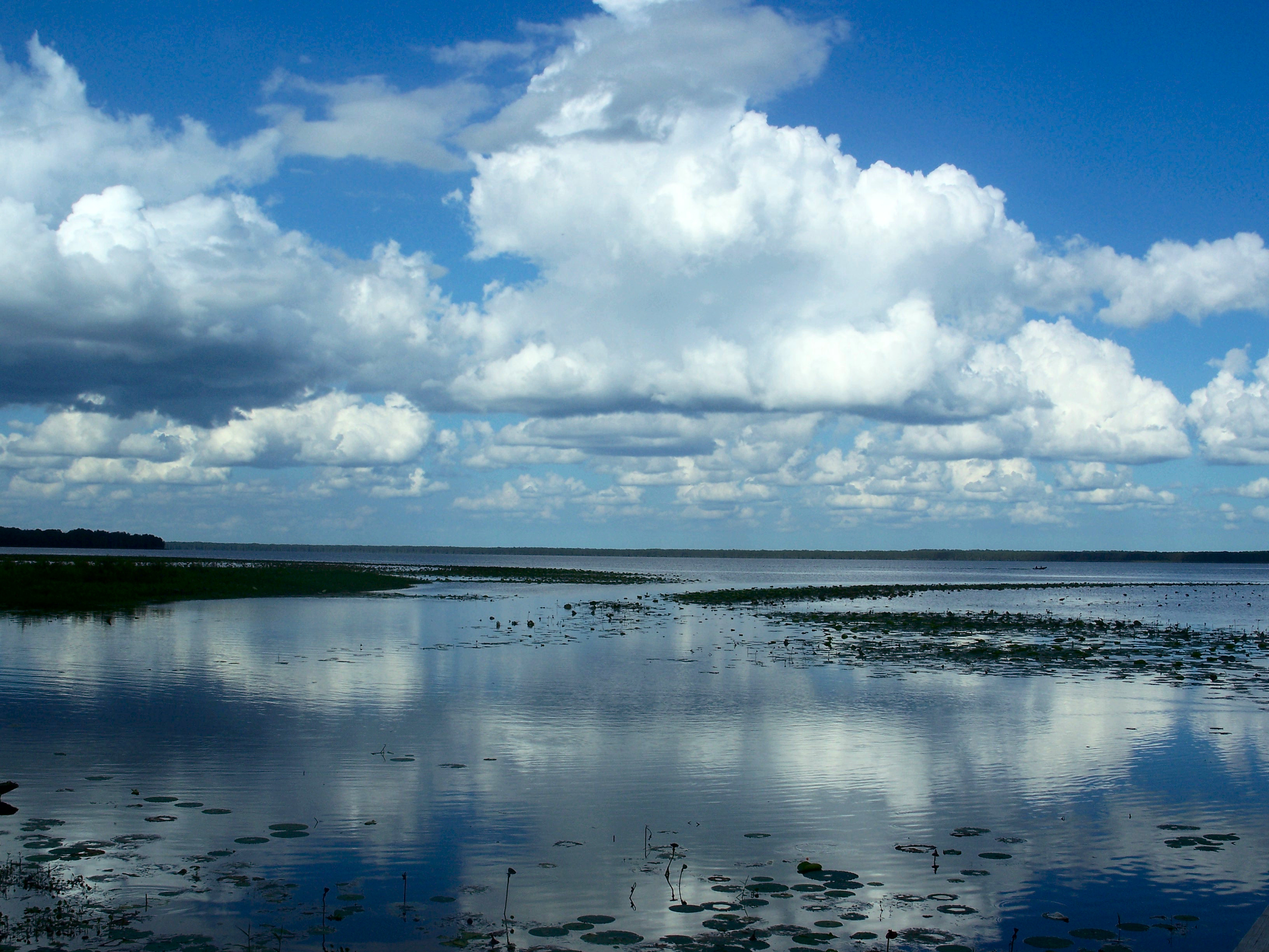 Gainesville, Florida: Newnan's Lake: Earl P. Powers Park on the west shore, off SR 20/Hawthorne Road.